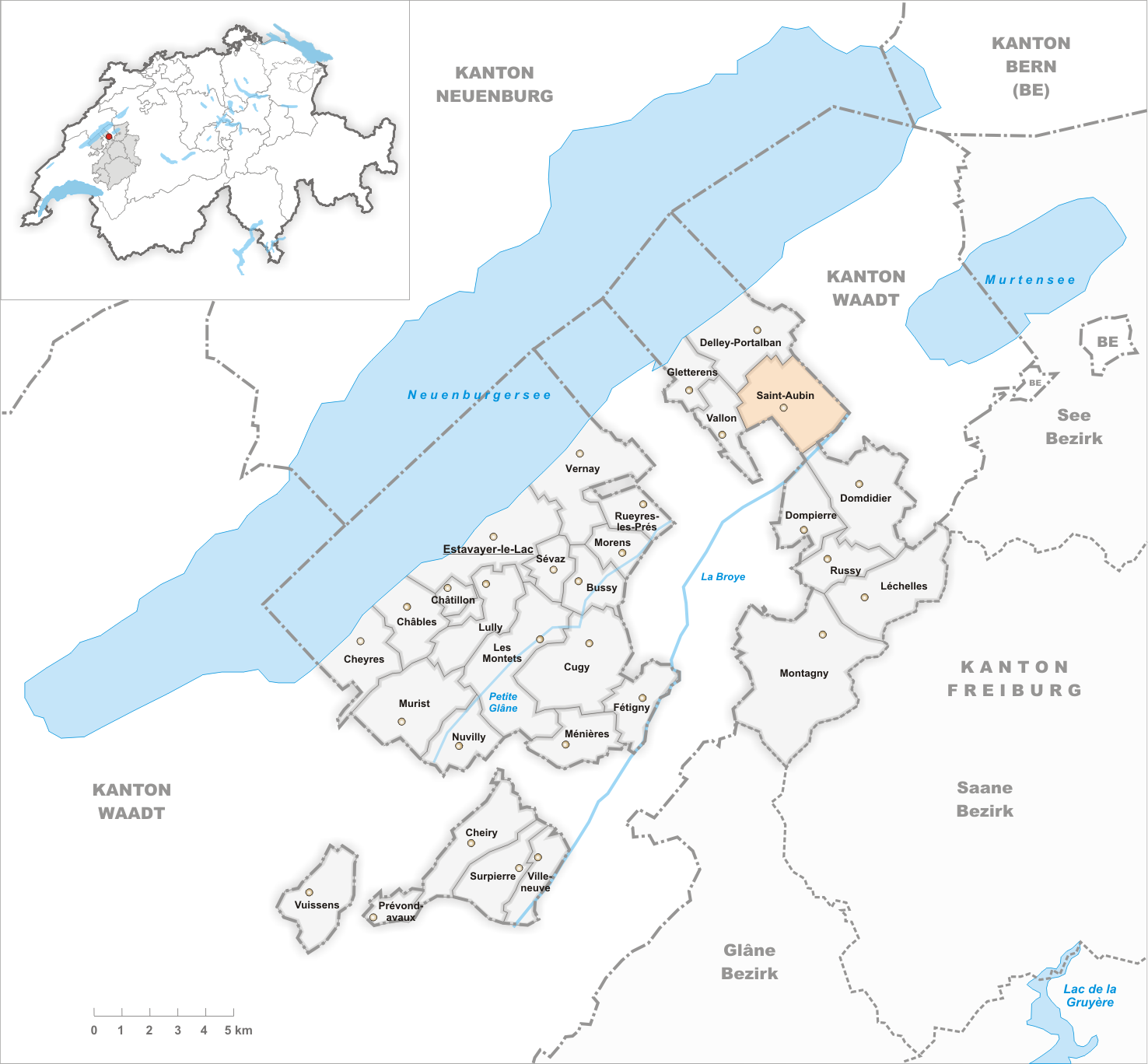 Municipality Saint-Aubin